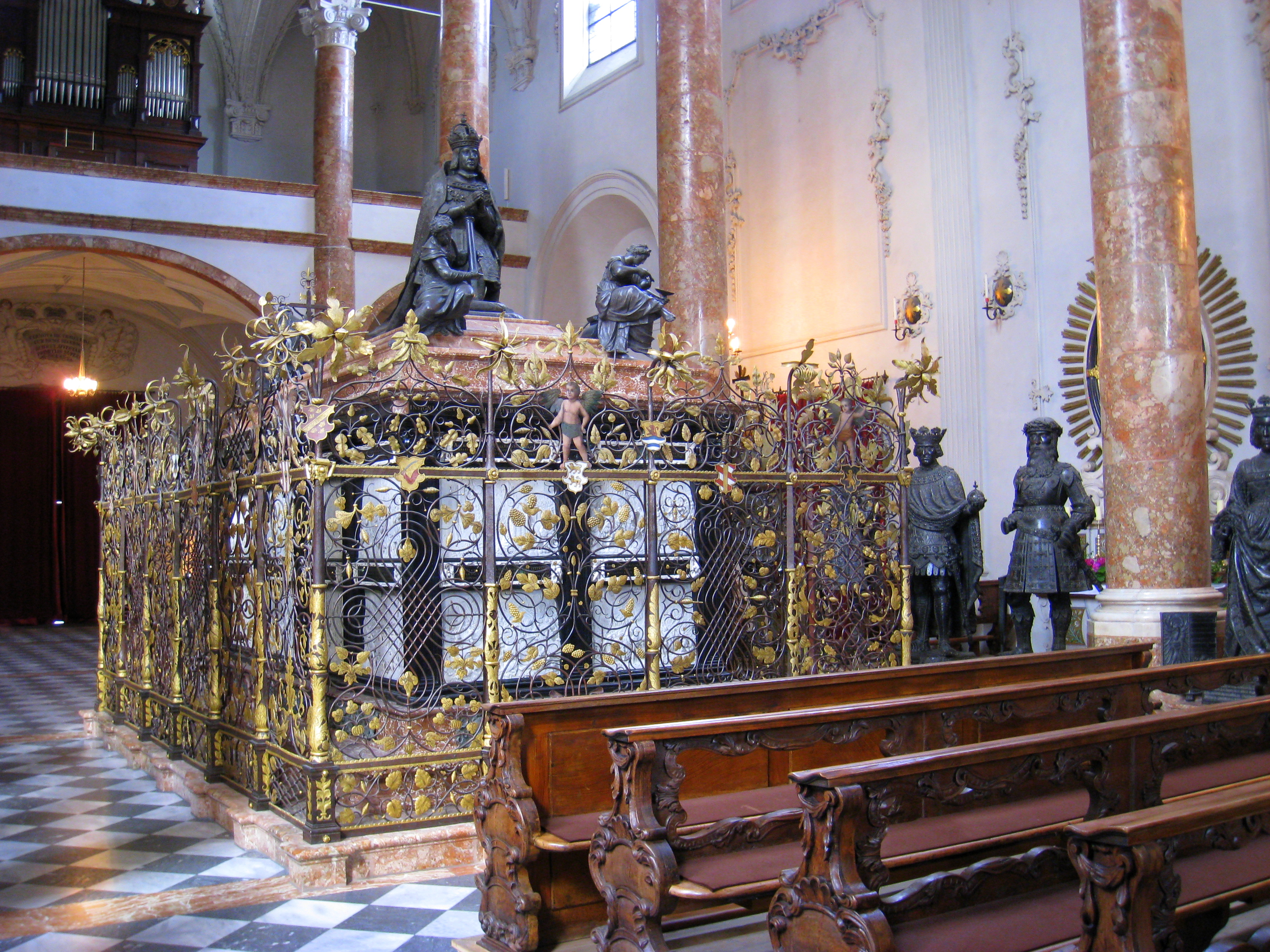 Hofkirche, Innsbruck, Austria - Maximilian I cenotaph.